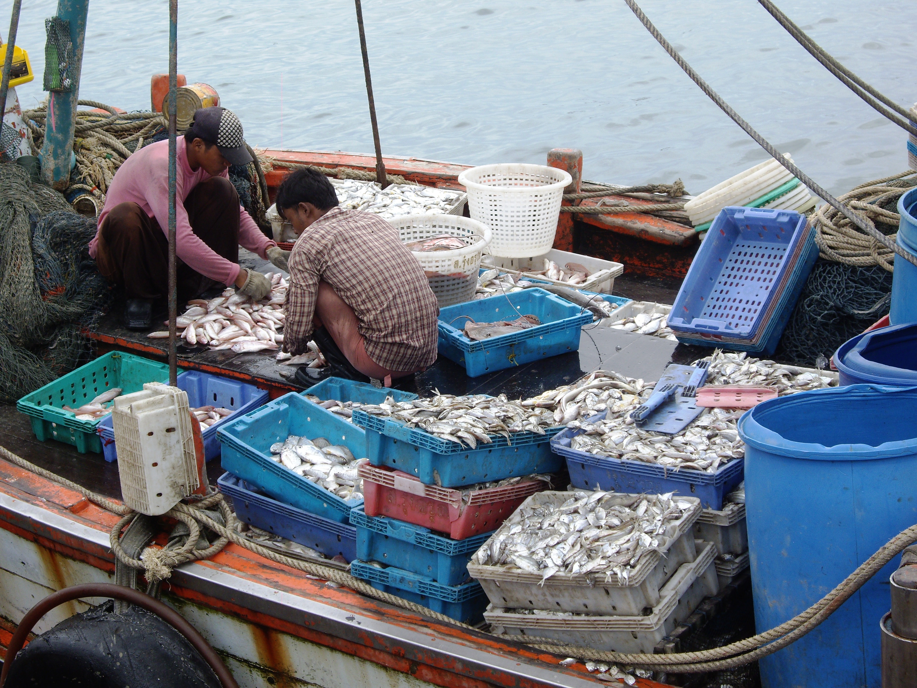 A Good Harvest